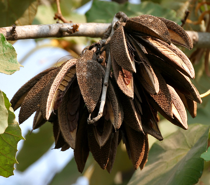 Pterospermum acerifolium - Kanak Champa, Moochukund, Bayur tree, Dinner Plate Tree, Karnikar Tree or Maple-Leafed Bayur Tree near Hyderabad, India.